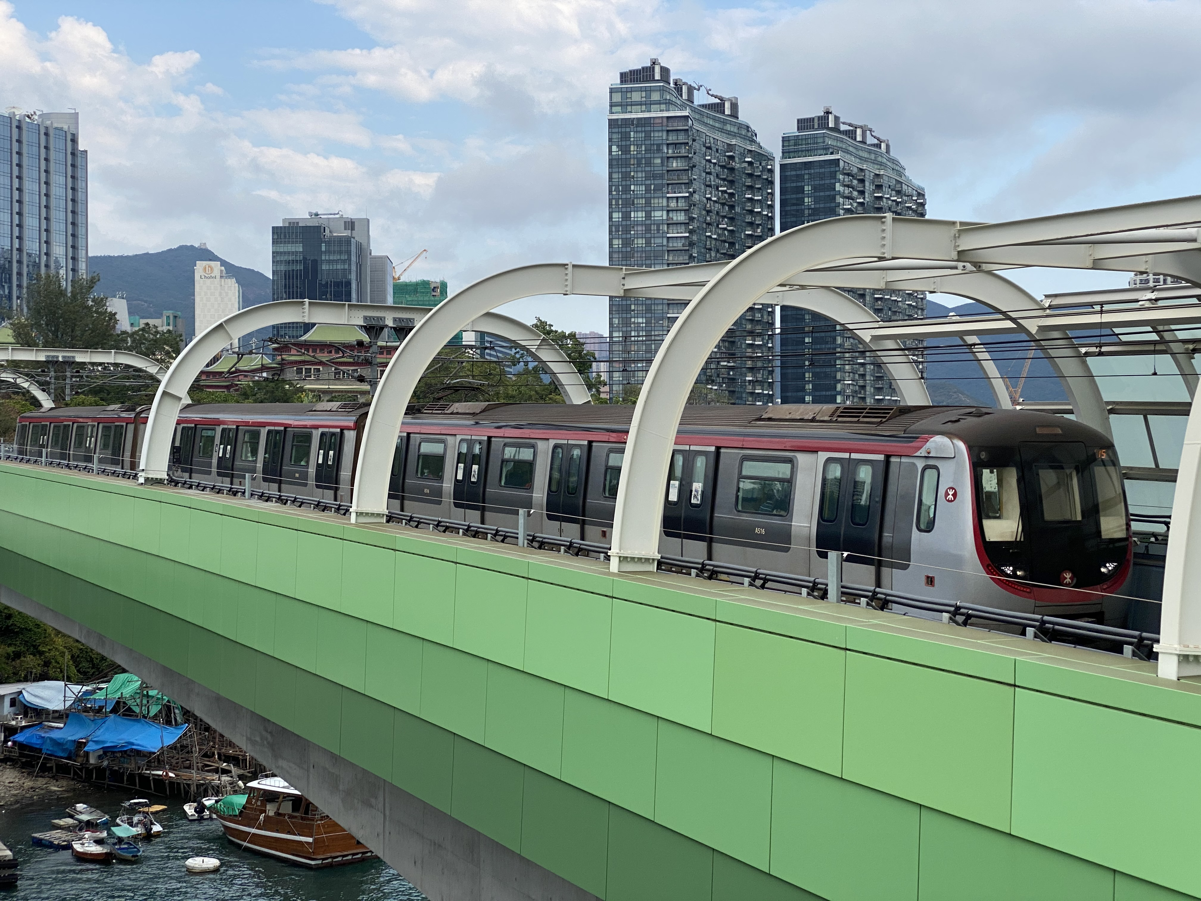 中文（香港）: This photo is taken in Ap Lei Chau.